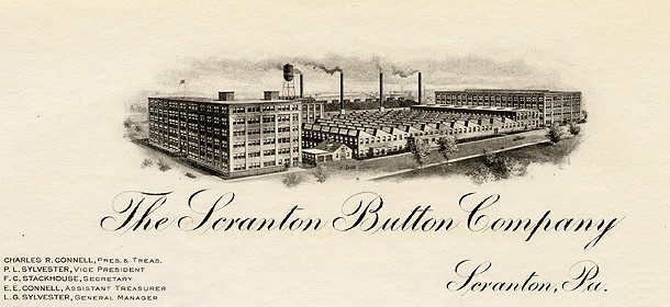 Printed lithograph of Scranton Button Company's Factory